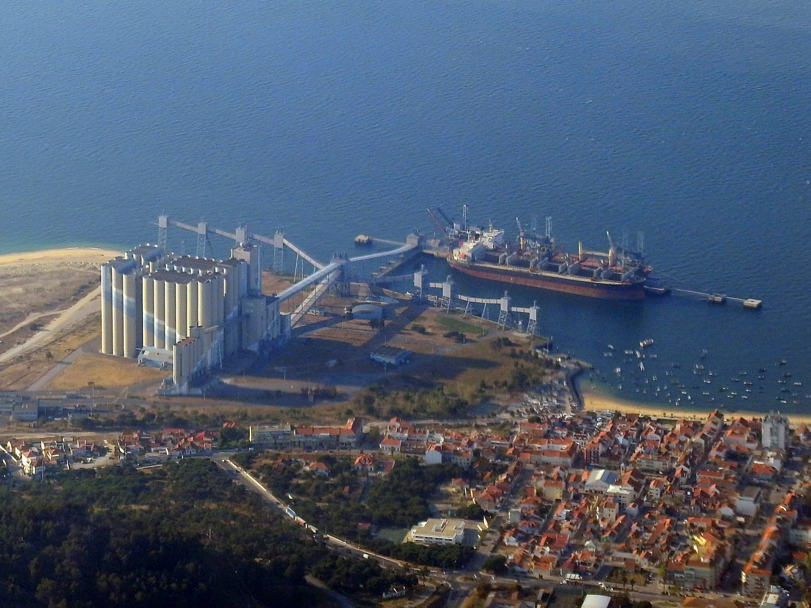 Silopor facility near Lisbon, Portugal.